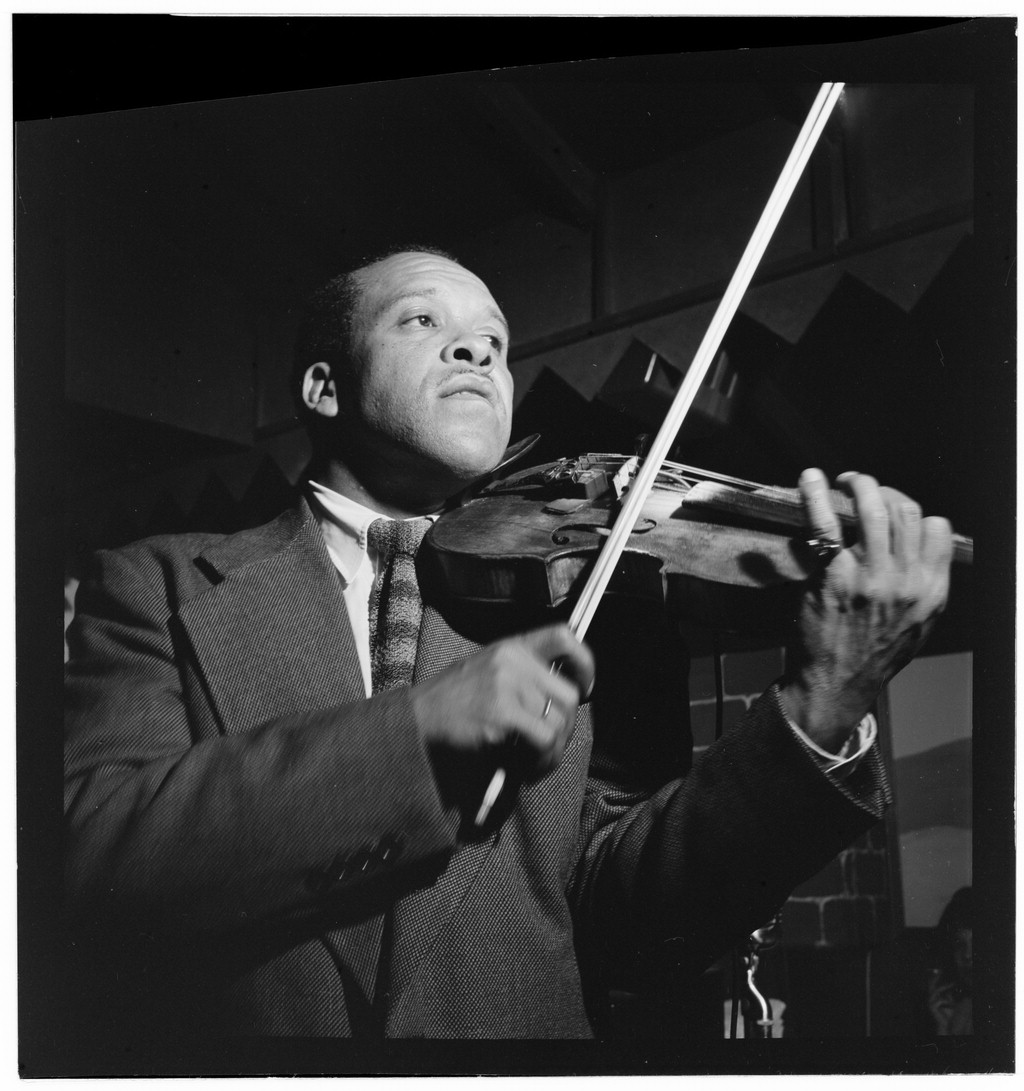 Gottlieb, William P., 1917-, photographer. Stuff Smith, Kelly's Stable, New York, N.Y., ca. Sept. 1946] 1 negative : b&w ; 2 1/4 x 2 1/4 in. Notes: Gottlieb Collection Assignment No. 457 Reference print available in Music Division, Library of Congress. Purchase William P. Gottlieb Forms part of: William P. Gottlieb Collection (Library of Congress). Subjects: Smith, Stuff Jazz musicians--1940-1950. Violinists--1940-1950. Fifty-second Street (New York, N.Y.)--1940-1950. Kelly's Stable Format: Portrait photographs--1940-1950. Film negatives--1940-1950. Rights Info: Mr. Gottlieb has dedicated these works to the public domain, but rights of privacy and publicity may apply. Repository: (negative) Library of Congress, Prints & Photographs Division, Washington D.C. 20540 USA, (reference print) Library of Congress, Music Division, Washington D.C. 20540 USA, Part Of: William P. Gottlieb Collection (DLC) 99-401005 General information about the Gottlieb Collection is available at Persistent URL: Call Number: LC-GLB23- 0789